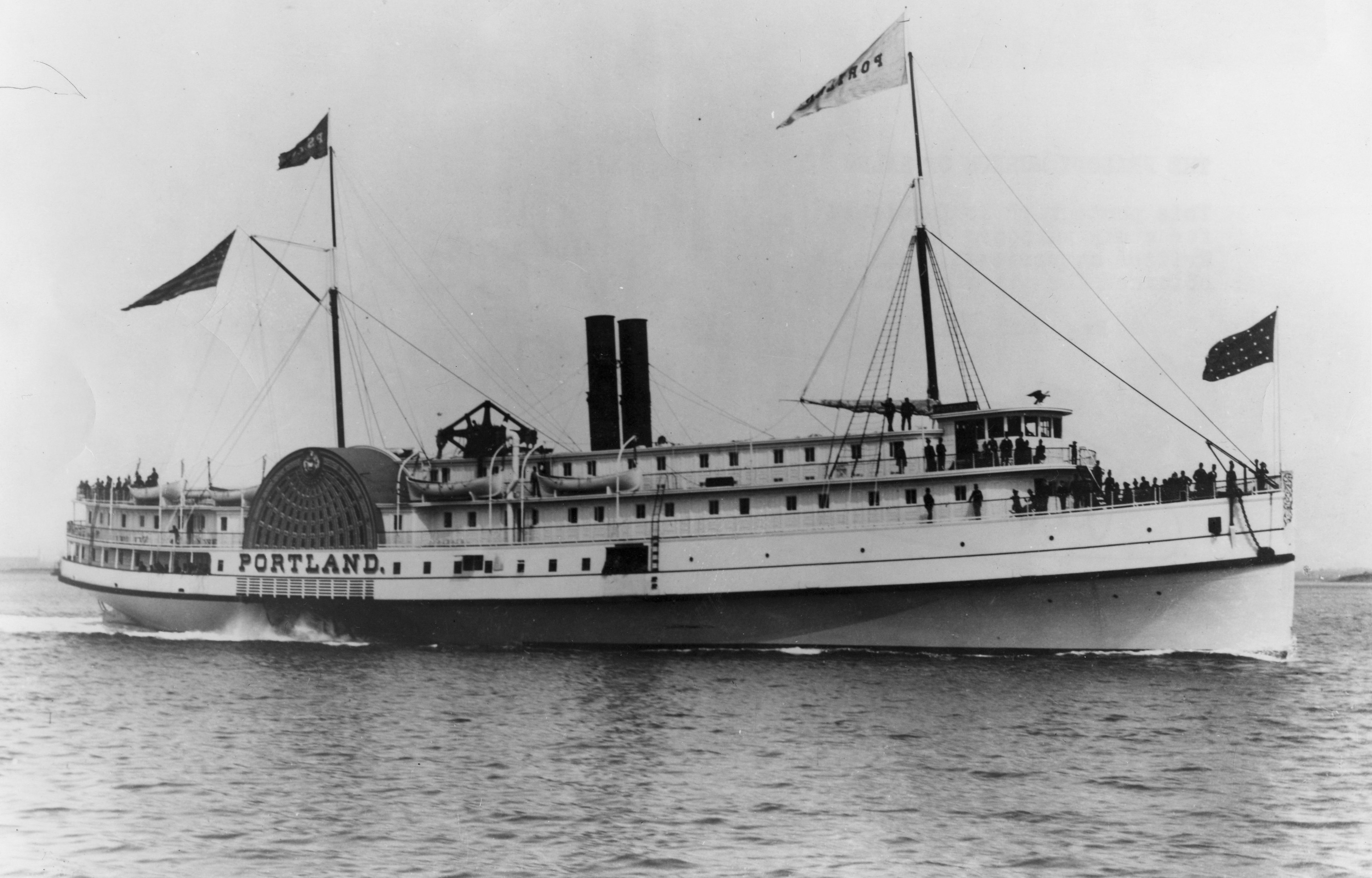 1902 postcard depicting the side-wheel steamship Portland, sunk with all hands in the Portland Gale, November 26, 1898 (estim. 192 persons killed).